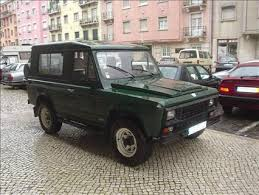 A 1990s PORTARO 280 Diesel 2800 4X4 nineseater jeep